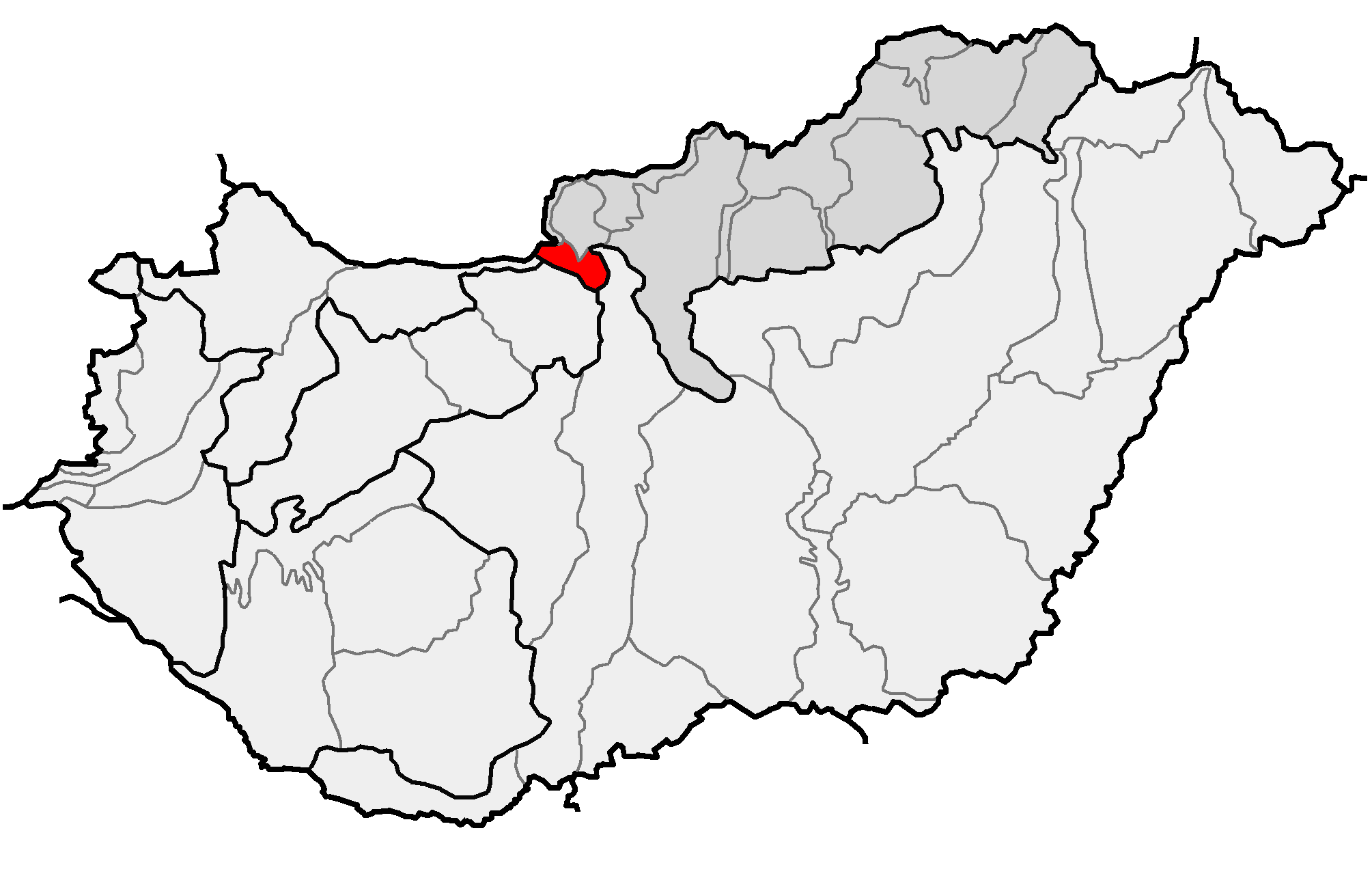 Location of geographical mesoregion of Visegrádi-hegység (red) and macroregion of Északi-középhegység (gray) within subdivisions of Hungary.